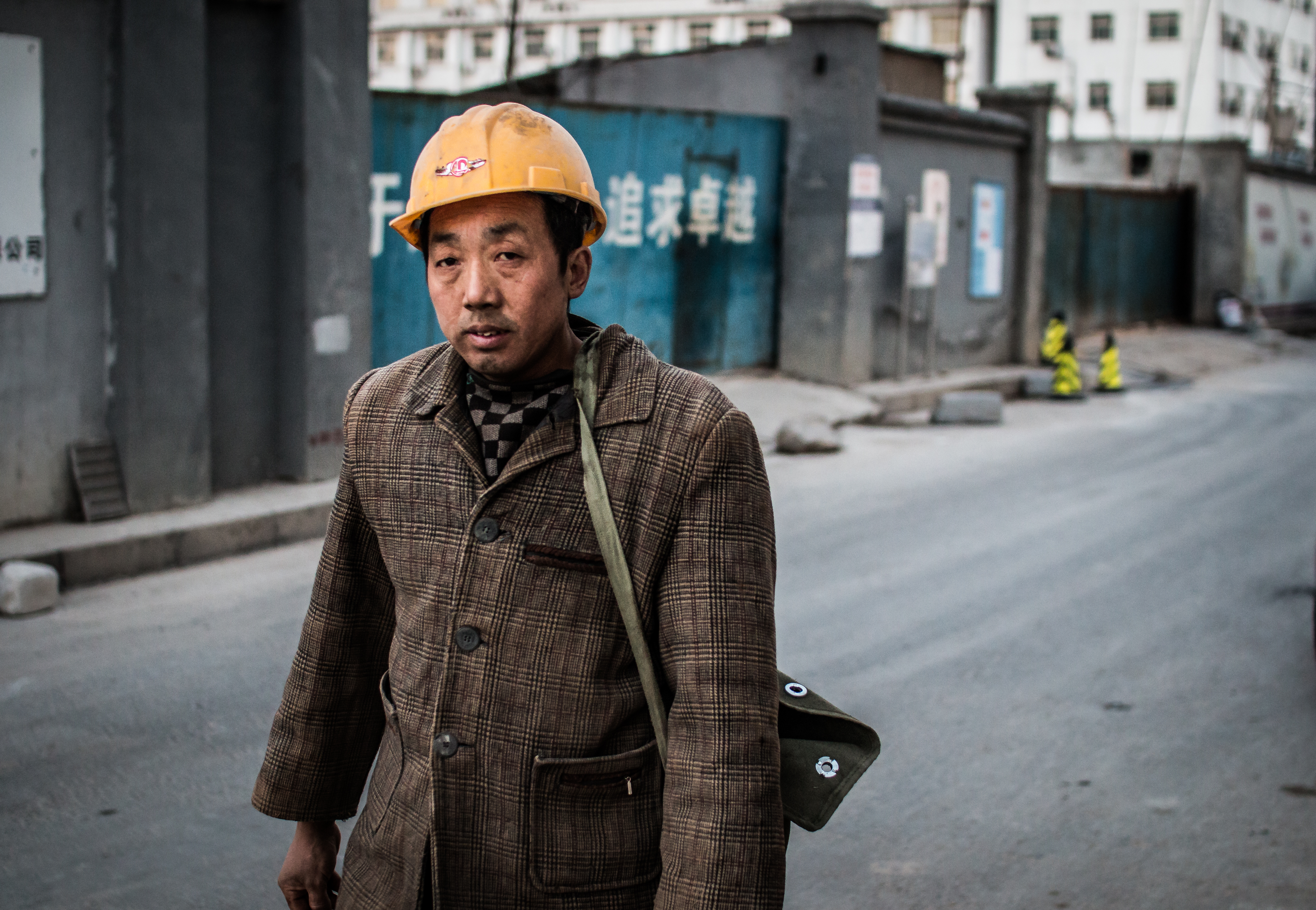 Migrant Worker: A migrant worker returning home after a probably long shift. Although they often work on construction sites, a lot of the migrant workers wear neat jackets - a relic of the communist past where belonging to the working-class was honourable.